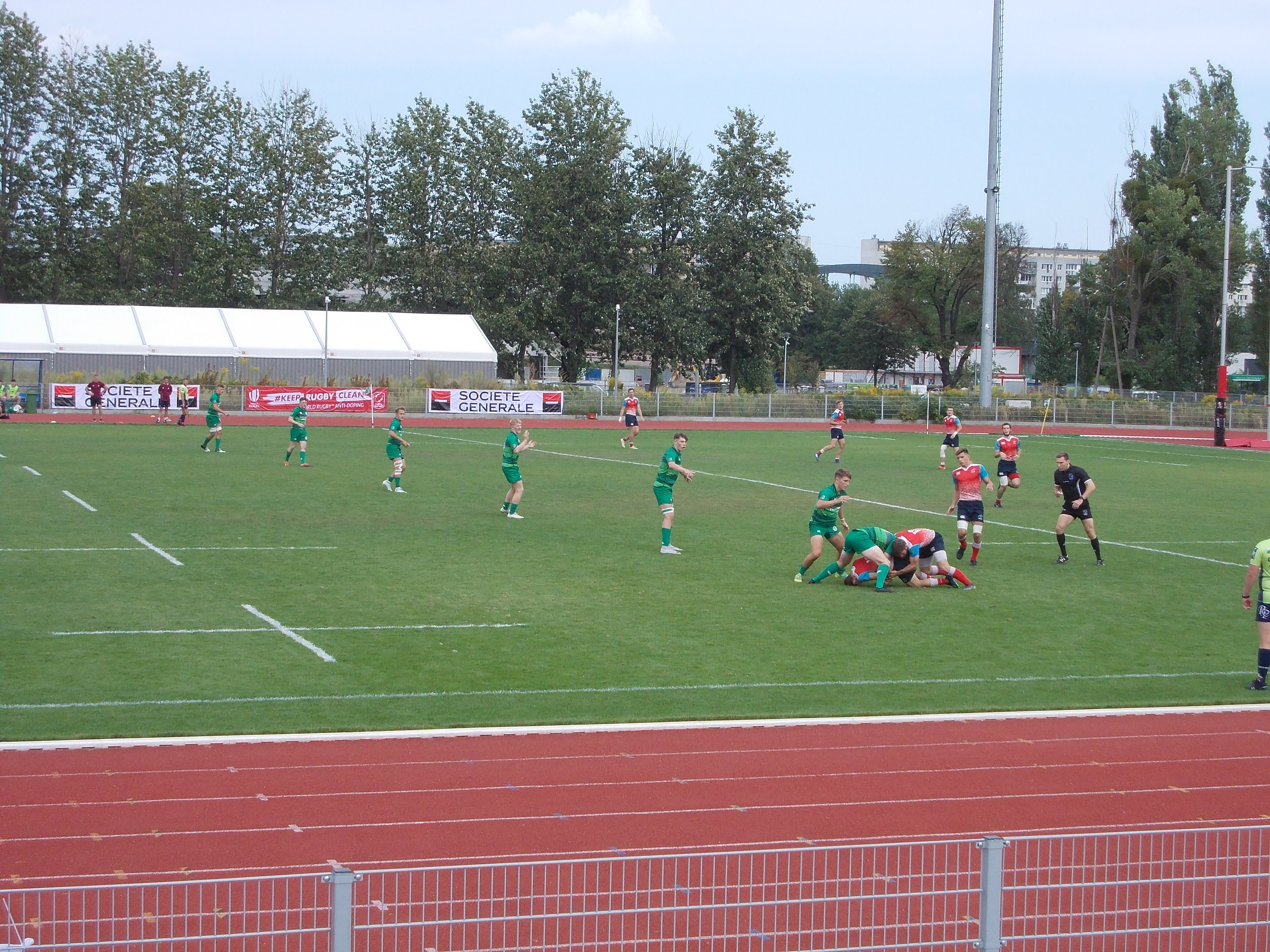 2019 Rugby Europe Men Under 18 Sevens Championship in Gdańsk